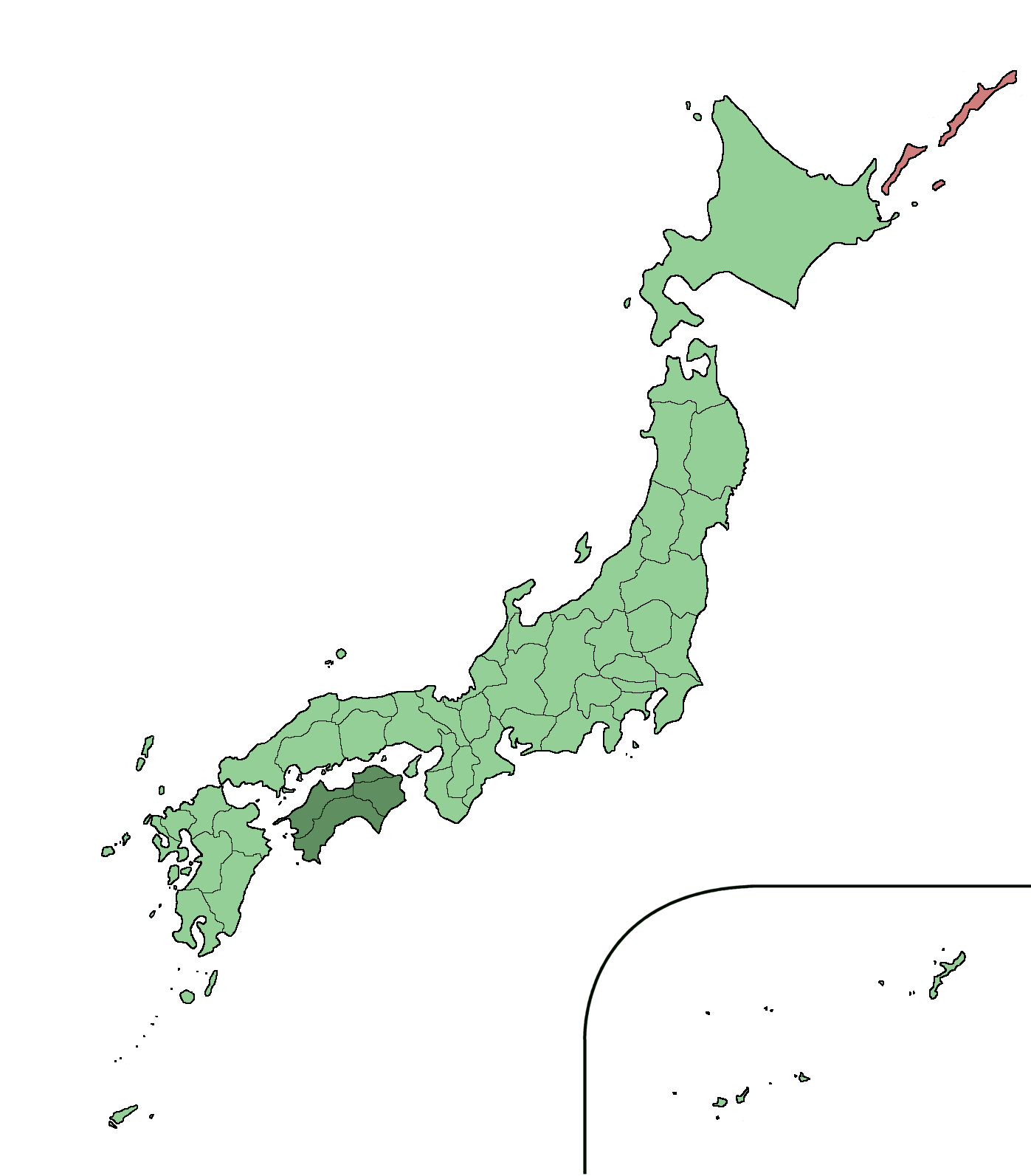 Large size map of Japan with Shikoku region highlighted, self made but originally based on Image:Japan Tohoku Region large.png.